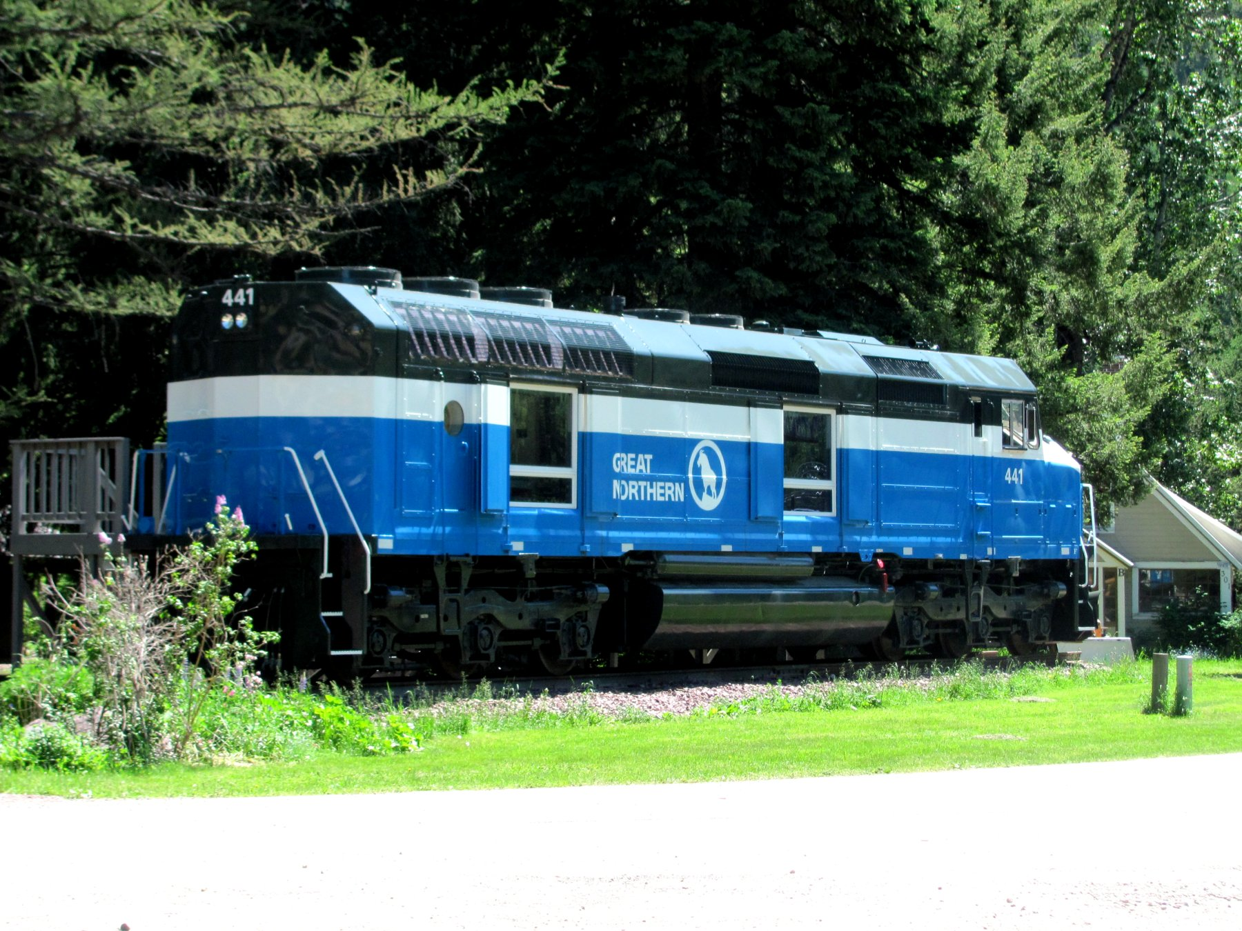 An ex-Santa Fe EMD F45 locomotive re-painted in the Great Northern's "Big Sky Blue" livery and converted into a lodge at the Izaak Walton Inn